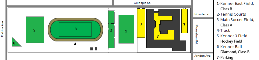 Map of the Kenner Playing Fields in relation to Kenner Collegiate Vocational Institute in Peterborough, Ontario, Canada.